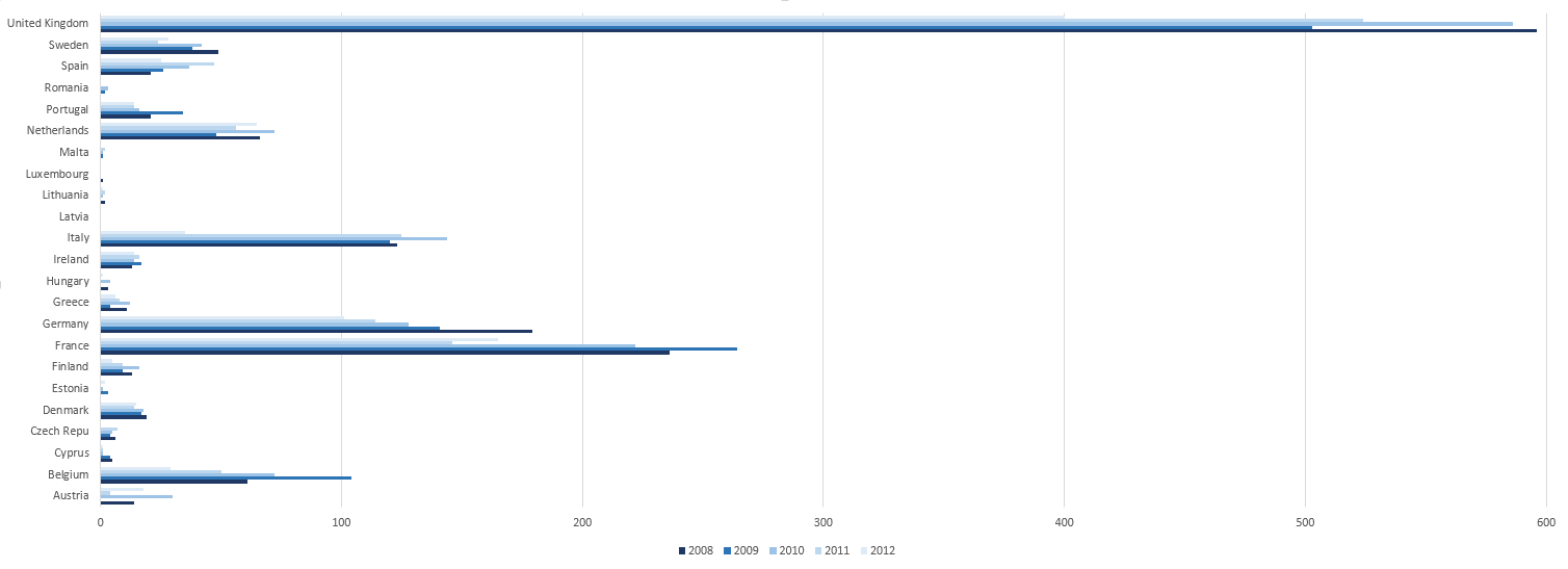 Number of confirmed typhoid-paratyphoid fever reported cases in European countries in the period 2008-2012, showing the proportion among countries. Highest rates were given in North Western Europe and Scandinavia.